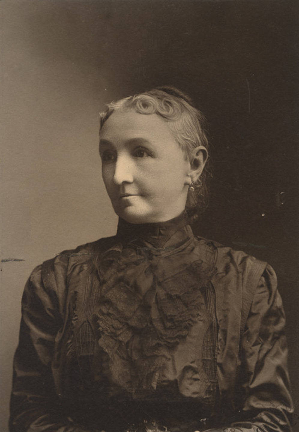 Augusta Jane Evans Wilson (1835-1909), American novelist